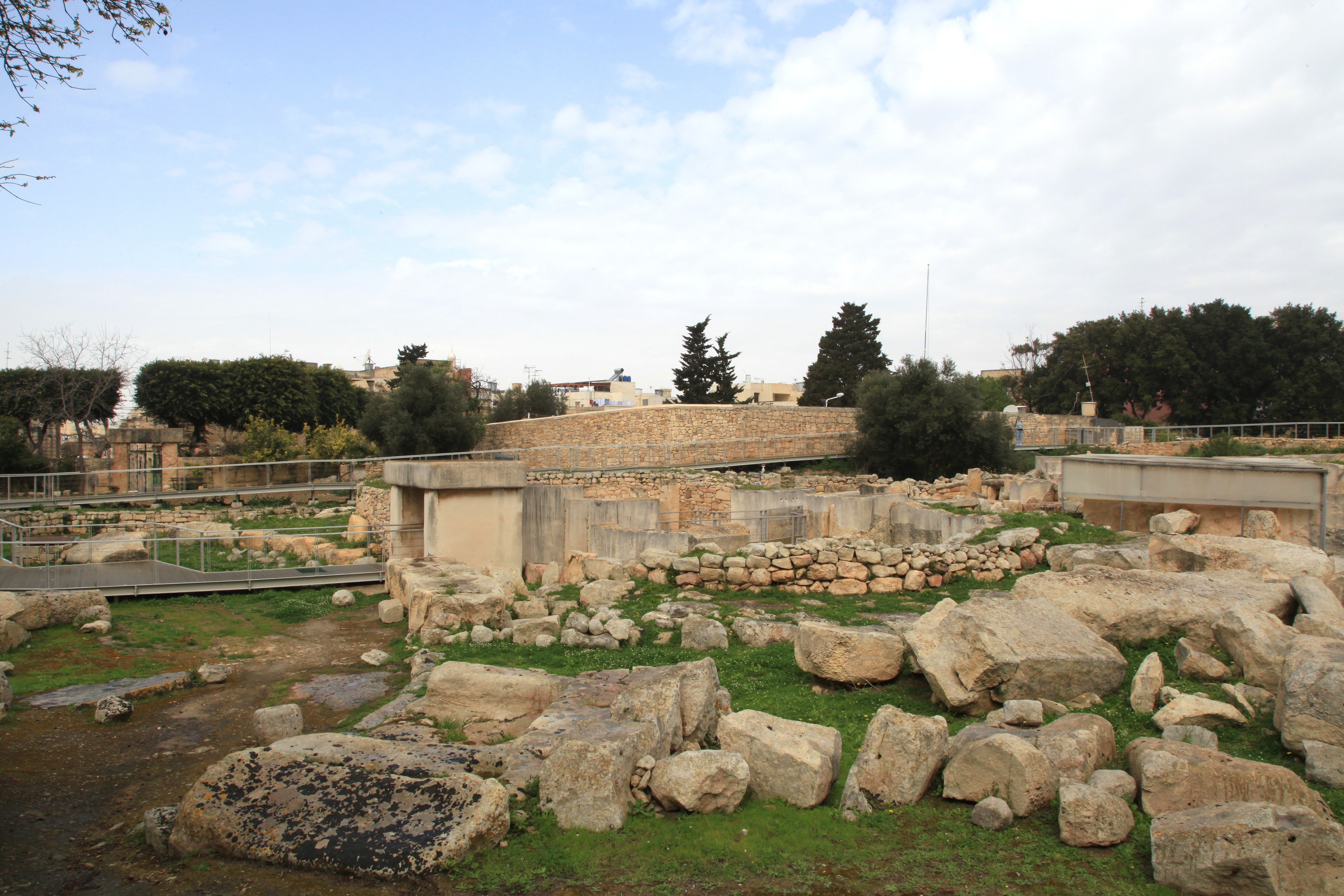 Tarxien Temples, Triq it-Tempji Neolitici in Tarxien, Malta